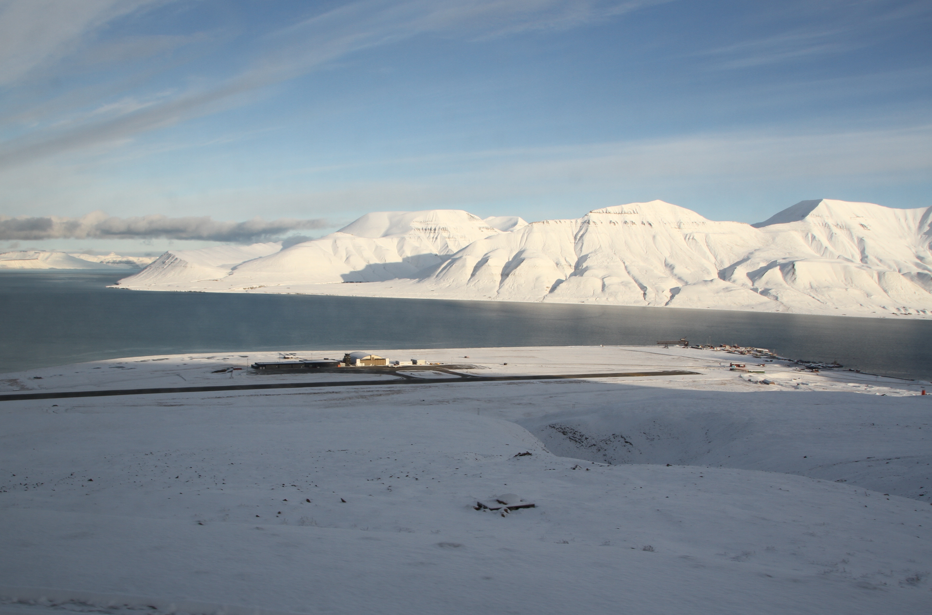 View from above of the Svalbard airport and revneset peninsula, Longyearbyen, spitsbergen